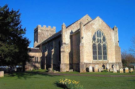 Parish church of Lytchett Minster, Dorset, seen from the southeast